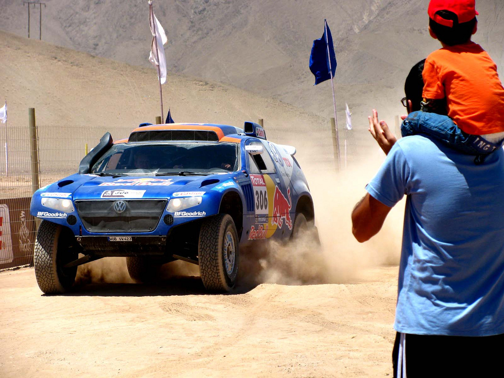 Dakar Rally 2010 close to Copiapó, Chile. Pilot Nasser Al-Attiyah (QAT) & copilot Timo Gottschalk (DEU), car Volkswagen Race Race Touareg 2 (#306)